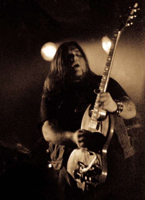 Jus Oborn, vocalist and guitarrist of Electric Wizard, playing live at Deventer.